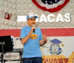 James Zumwalt, Charge d'Affaires, addressed at akasaka Sacas in Minato Ward, Tōkyō Metropolis on May 16, 2009.